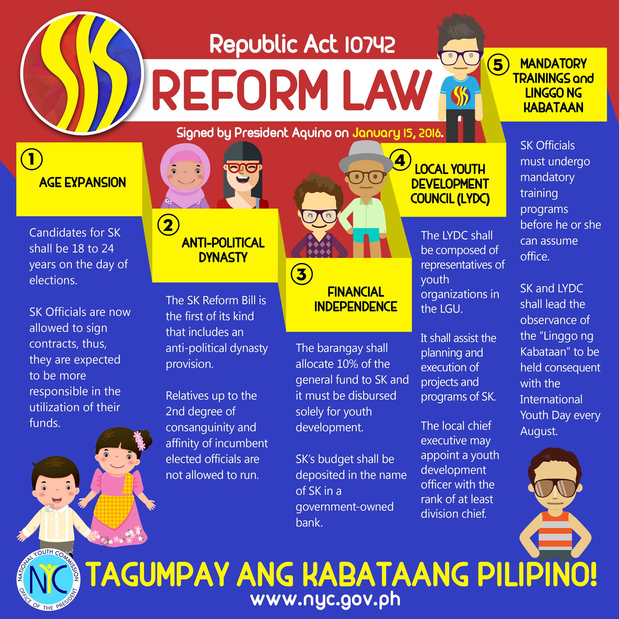 Infographic of the changes made by the Sangguniang Kabataan Reform Law signed January 2016